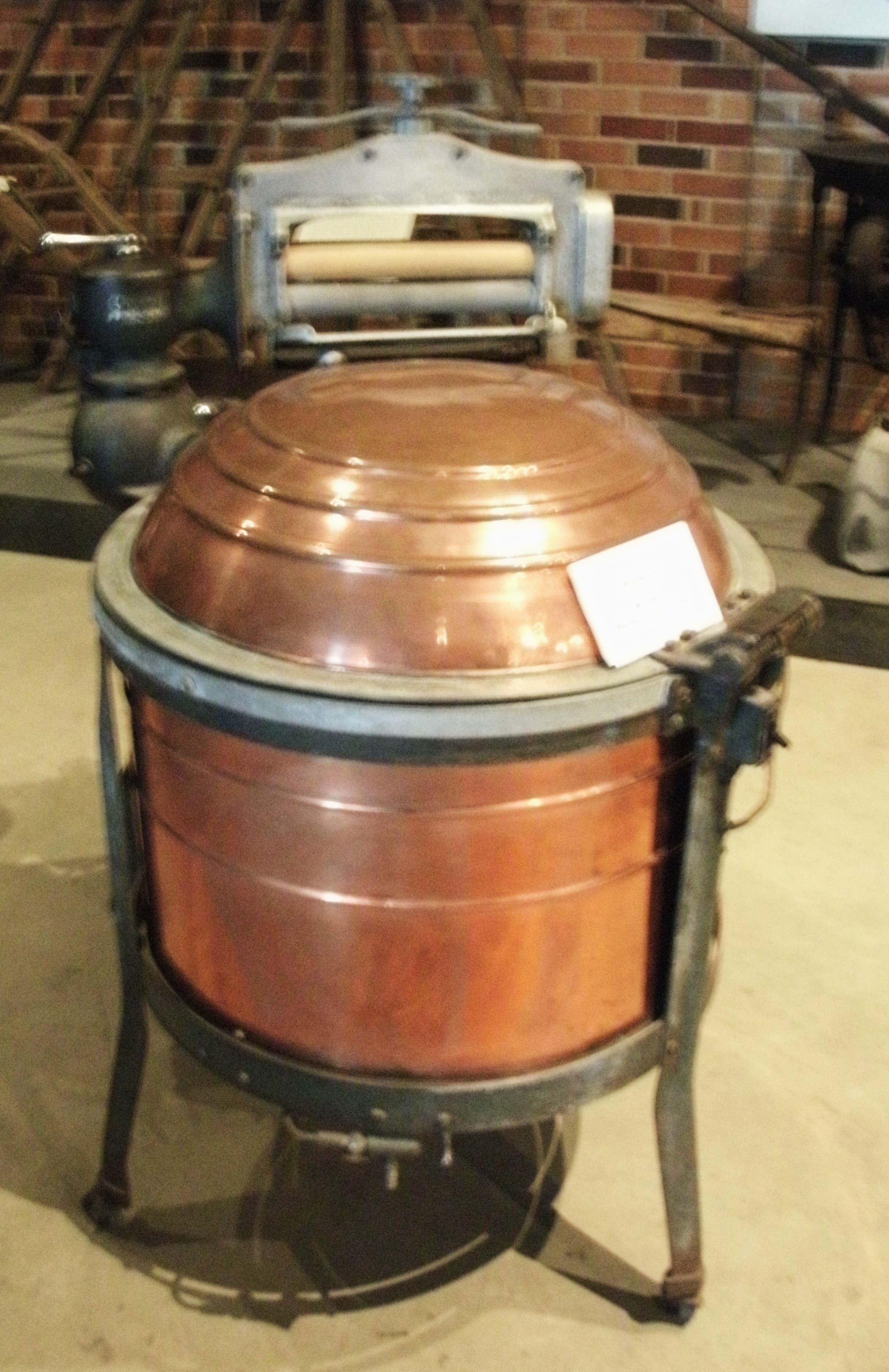 HART-PARR copper tub washing machine built in 1924 to 1927 located at the Floyd County Museum in Charles City, Iowa, USA